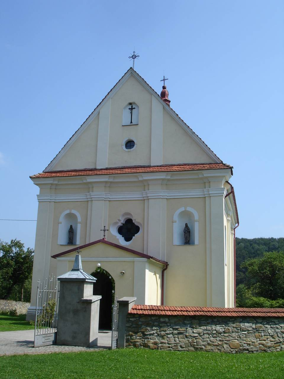 Hoczew. Latin parish church.